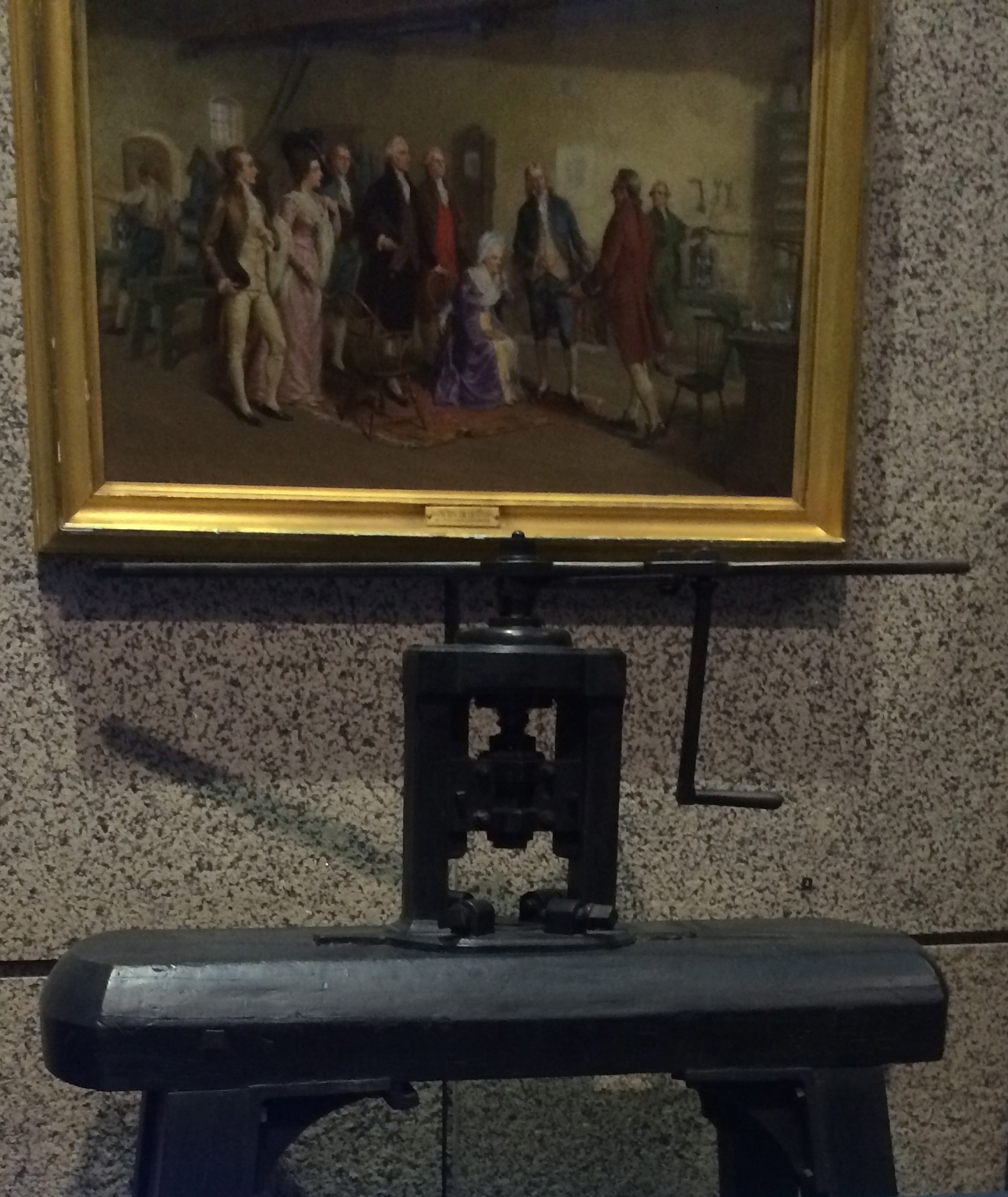 Coinage press built by Adam Eckfeldt in 1792. Painting above it is Inspecting the First Coins by John Dunsmore, which is PD as shown [File:Washington-inspecting-first-coins.jpg here].